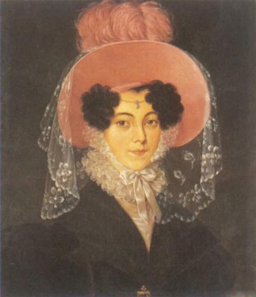 Tatyana Kurakina